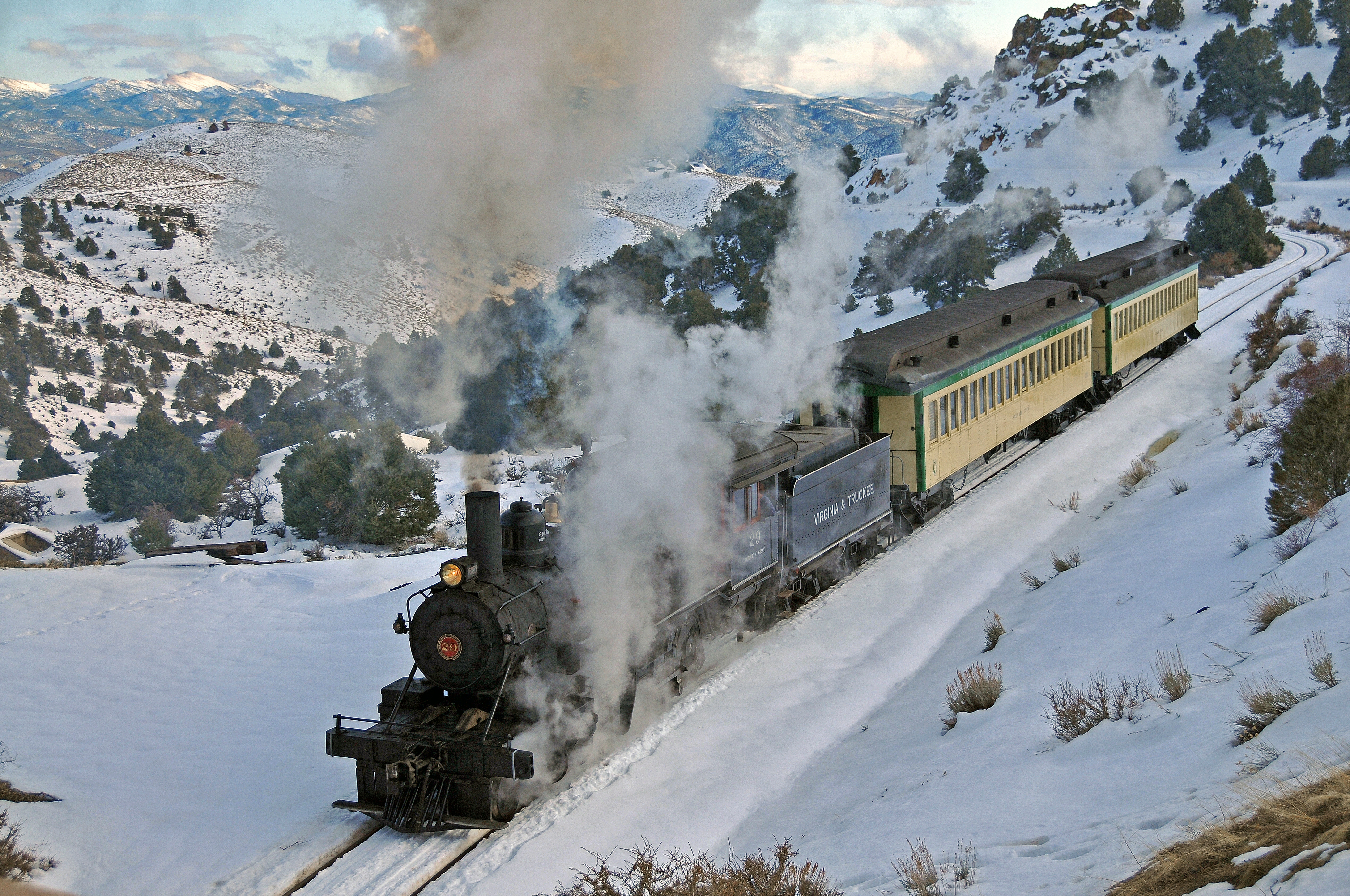 March 2nd 2010, Virginia and Truckee #29 at the South end of Virginia City with a Central Coast RR Club excursion.